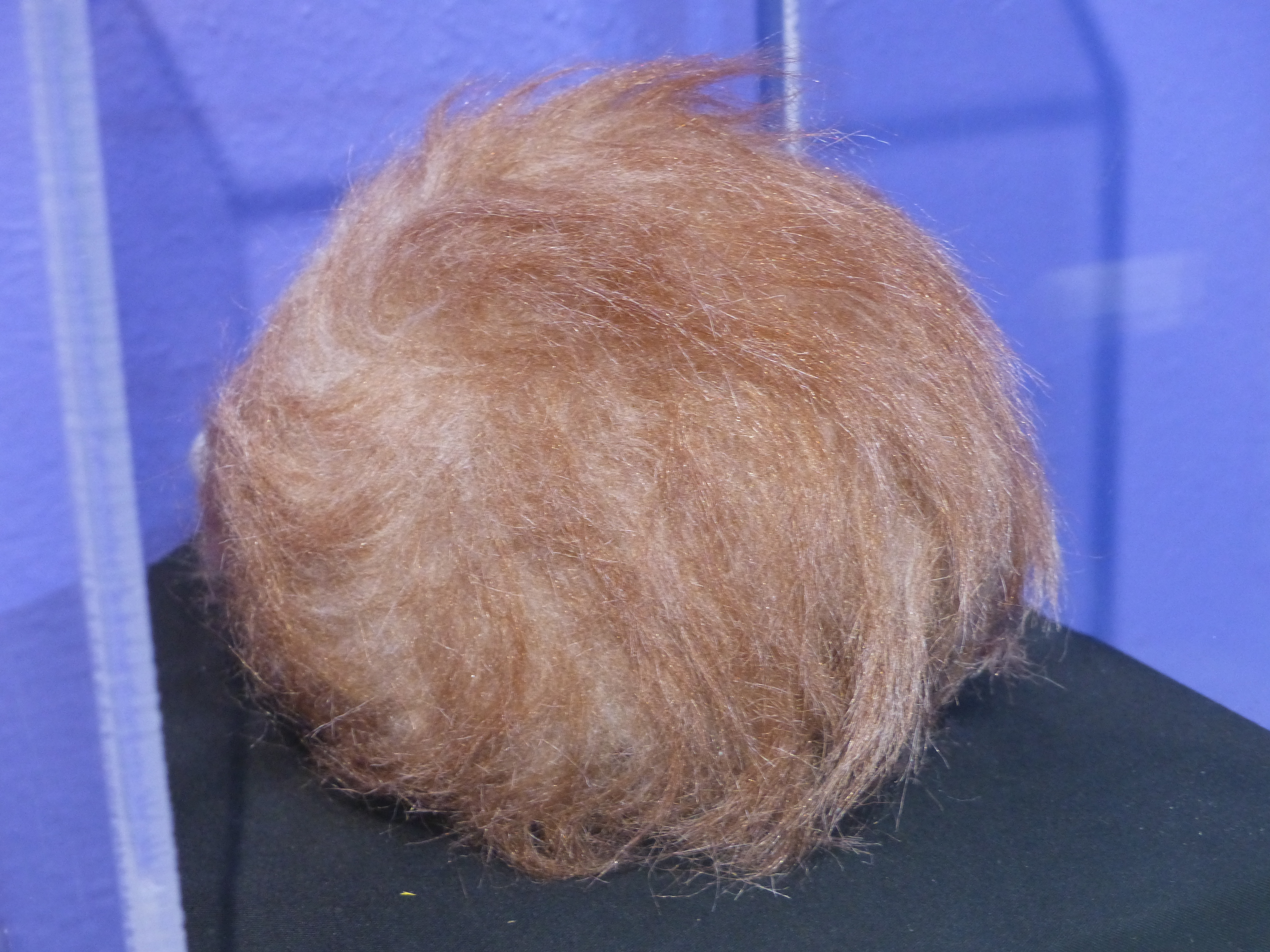 exhibit in the New Mexico Museum of Space History